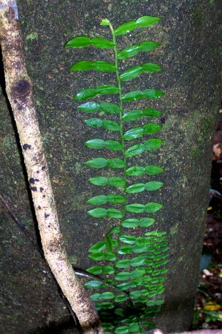 Pothos longipes at Booyong Reserve, near Lismore, NSW, Australia